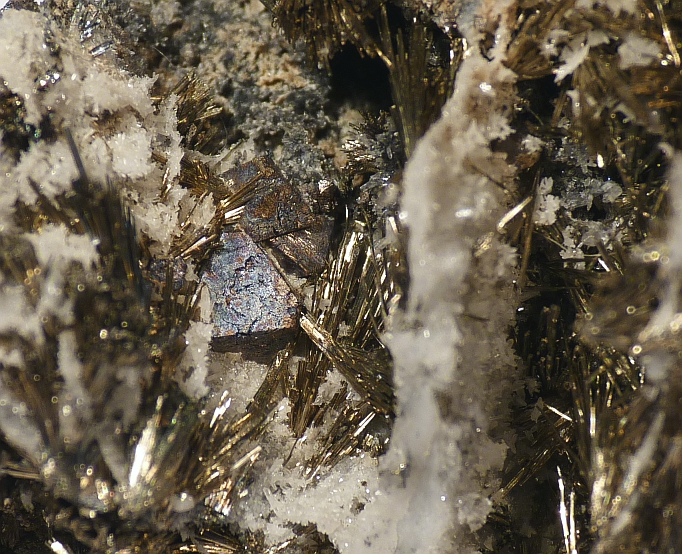 Linnaeite and Millerite Locality: Victoria Mine, Littfeld, Siegerland, North Rhine-Westphalia, Germany Linnaeite crystals associated with some millerite crystals. Field of view 8 mm. Specimen and photo Leon Hupperichs.